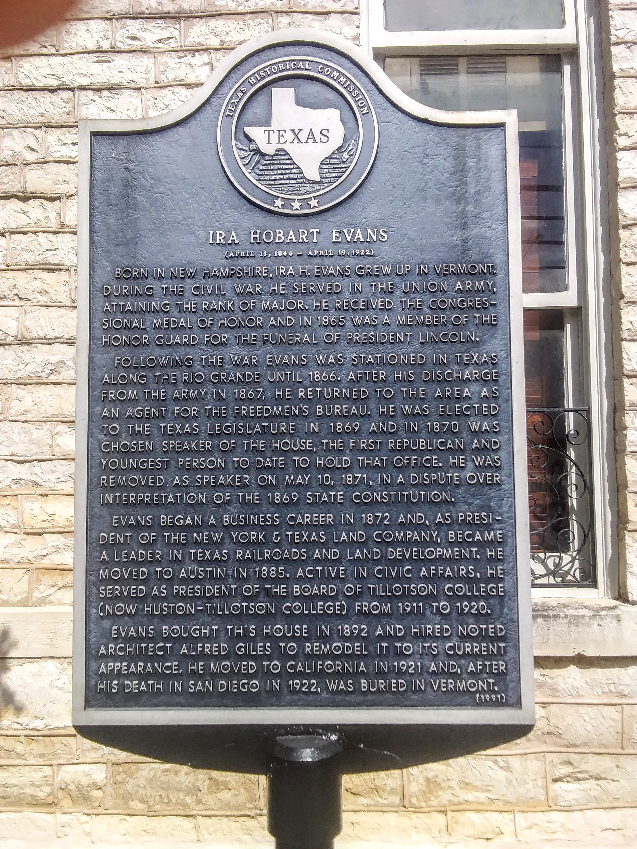 Texas Historical Commission ~ plaque ~ outside of Ira Hobart Evans' home in Austin, Texas